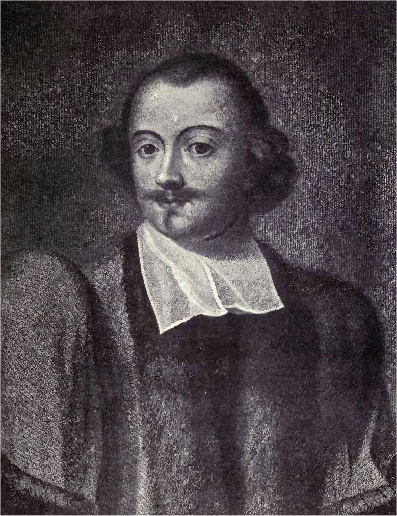 John Harrison, (1579 - 1656) prominent inhabitant of Leeds, in Yorkshire, England, in the sixteenth and seventeenth century, variously as one of the early woolen cloth merchants, and as a benefactor of the town.